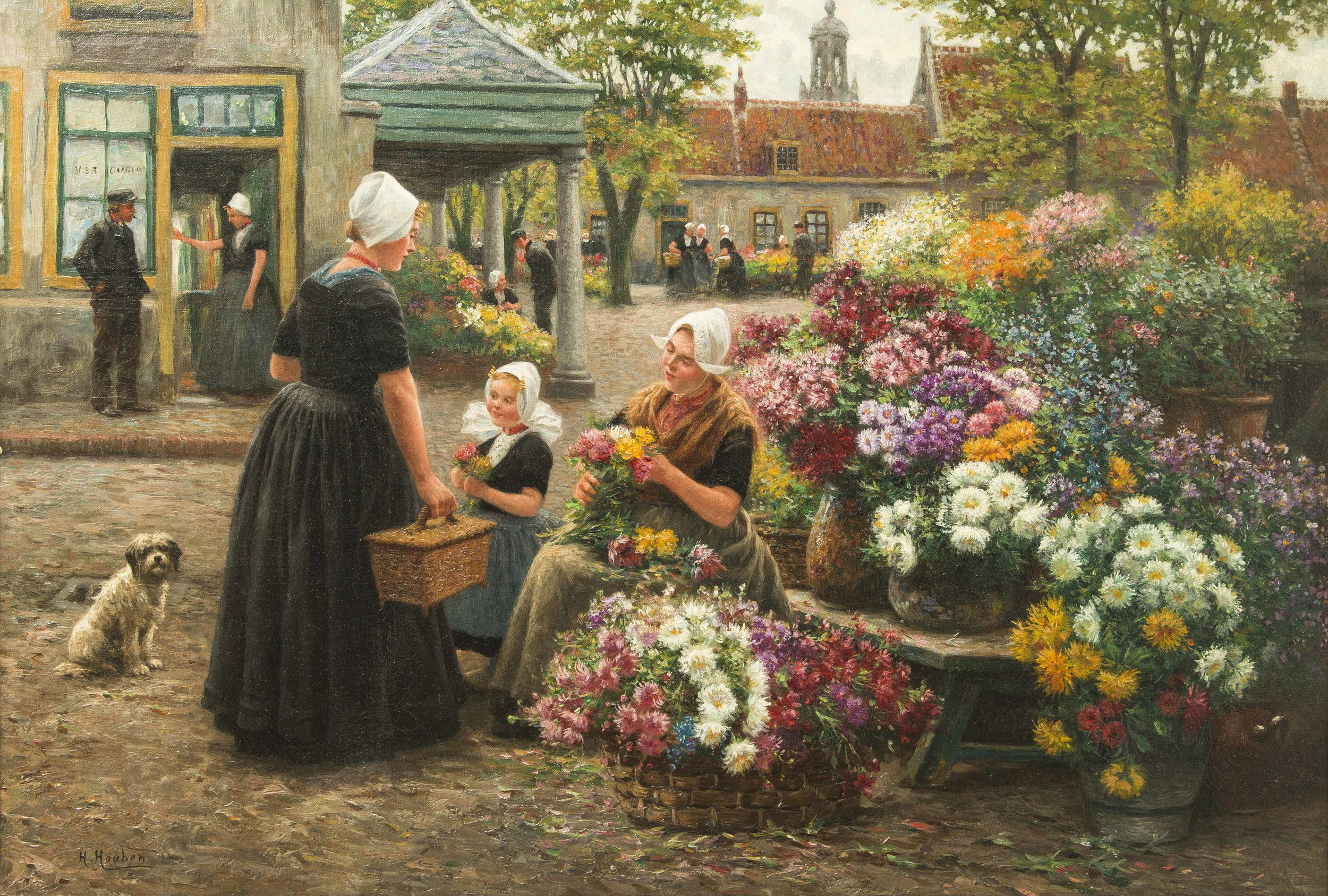 Flower market scene